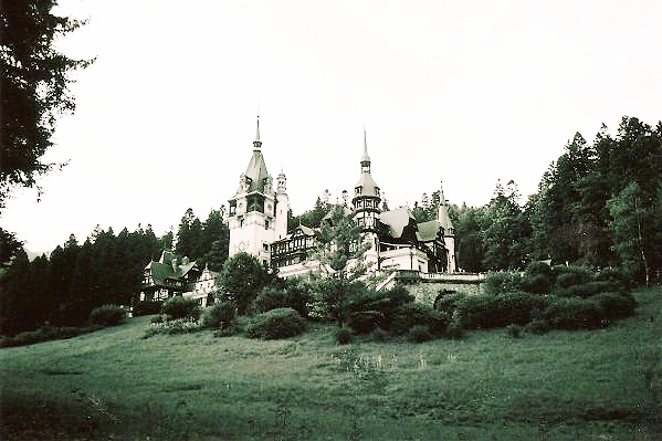 Peles Castle is one of the most historic landmarks in the mountains of Sinai, Romania.